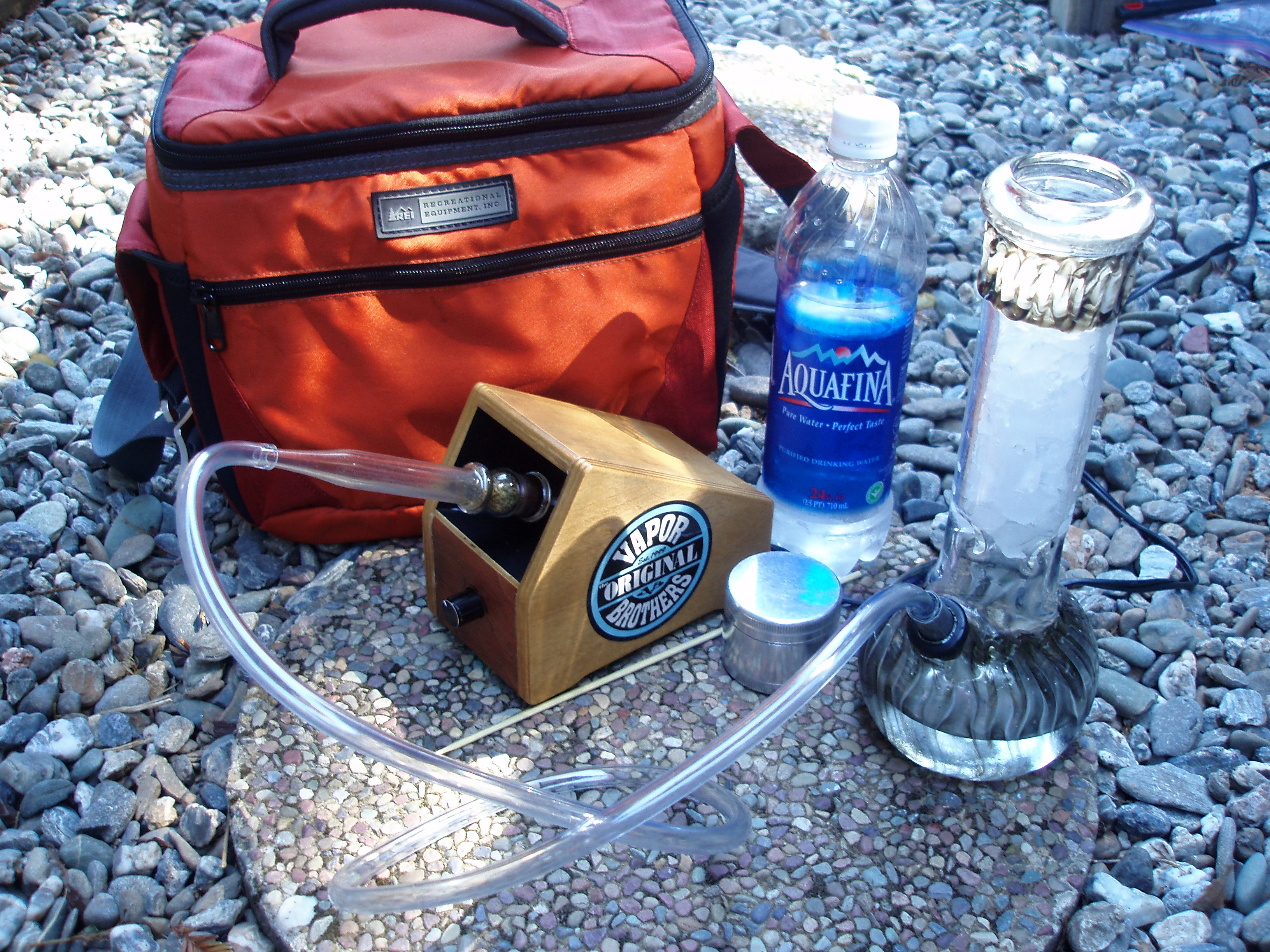 Vaporbrothers vaporizer with hose attached to air-tight seal on water bong filled with crushed ice.